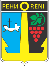 Coat of arms Reni (Odesa oblast, Ukraine) - soviet era